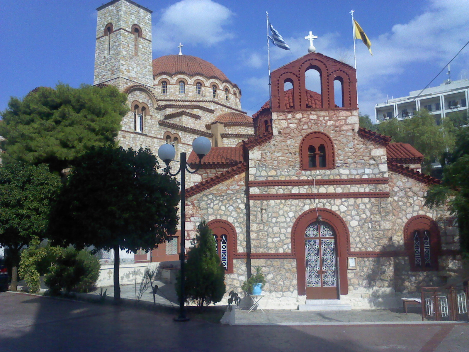 Agios Sotiras Palaia Kokkinia